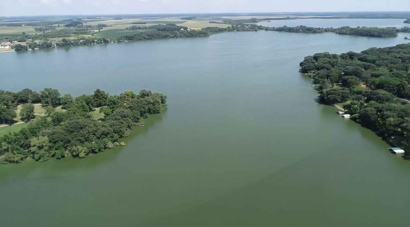 Crystal Lake Aerial View, looking southeast in 2016. The Lake Crystal Cemetery on the left and Loon Lake in the distance in the top right